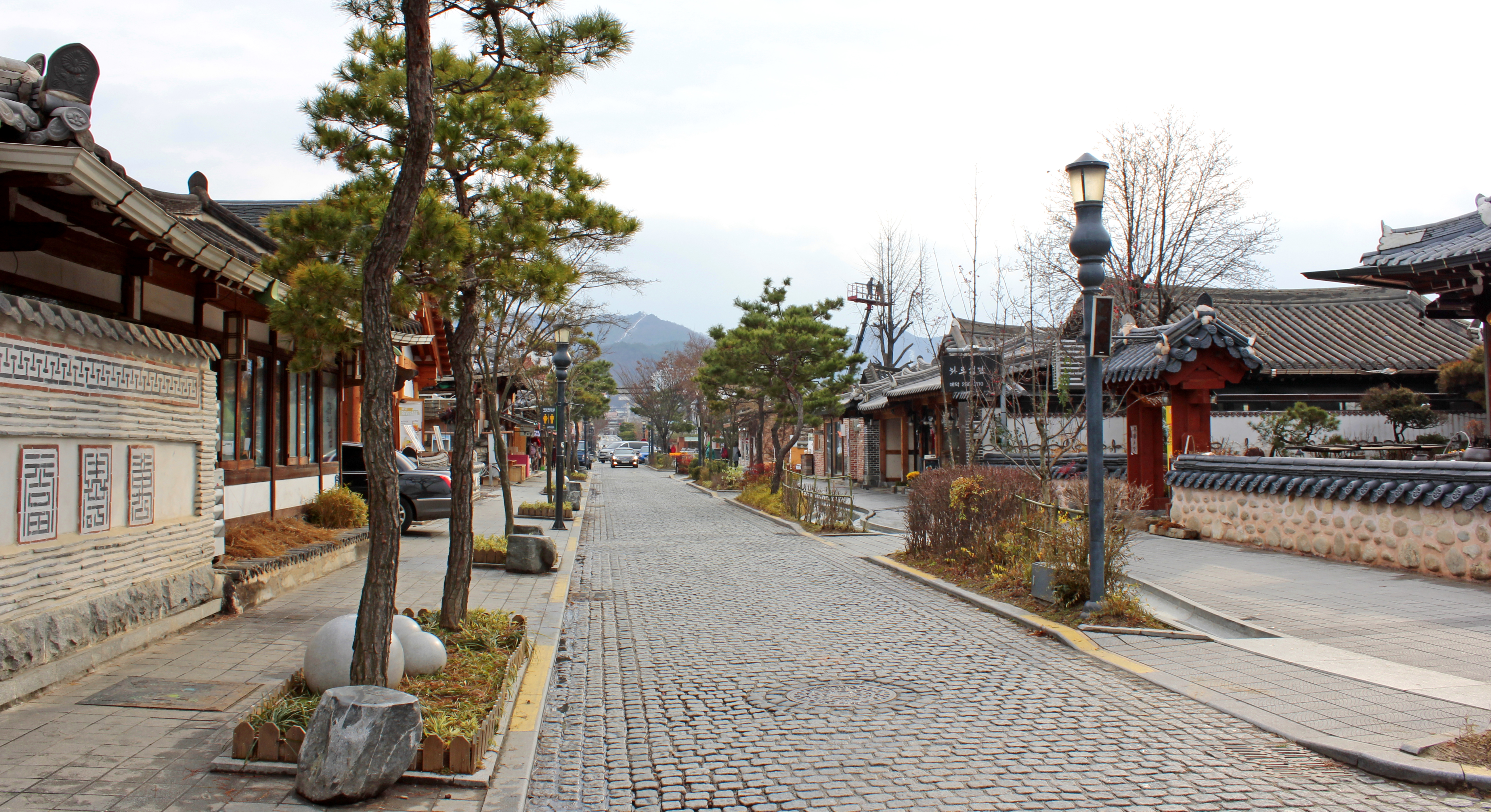 Eunhaeng-ro, Jeonju